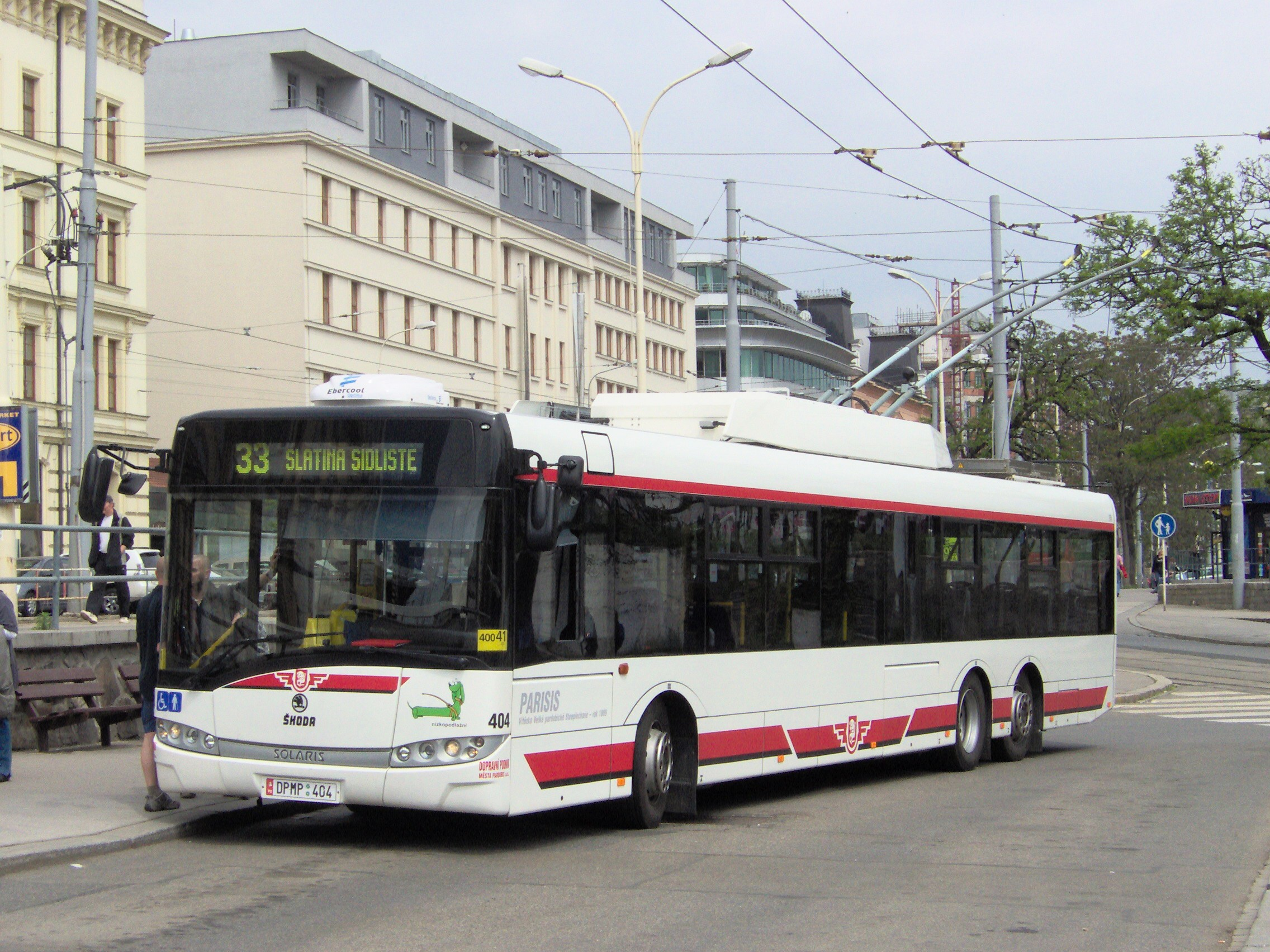 Trolleybus Škoda 28Tr Solaris no. 404 from Pardubice in Brno, Czech Republic